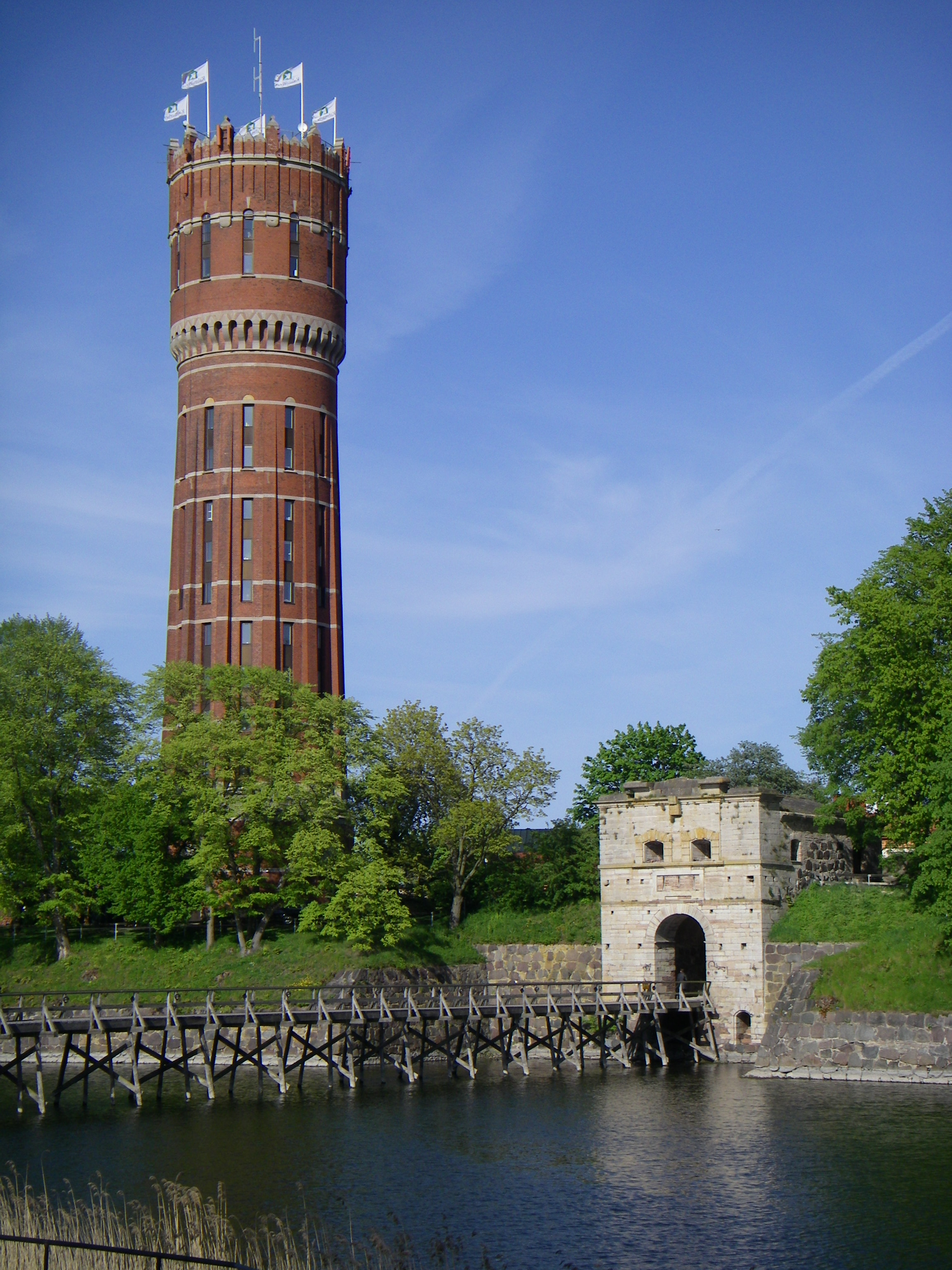 Kalmar's old water tower